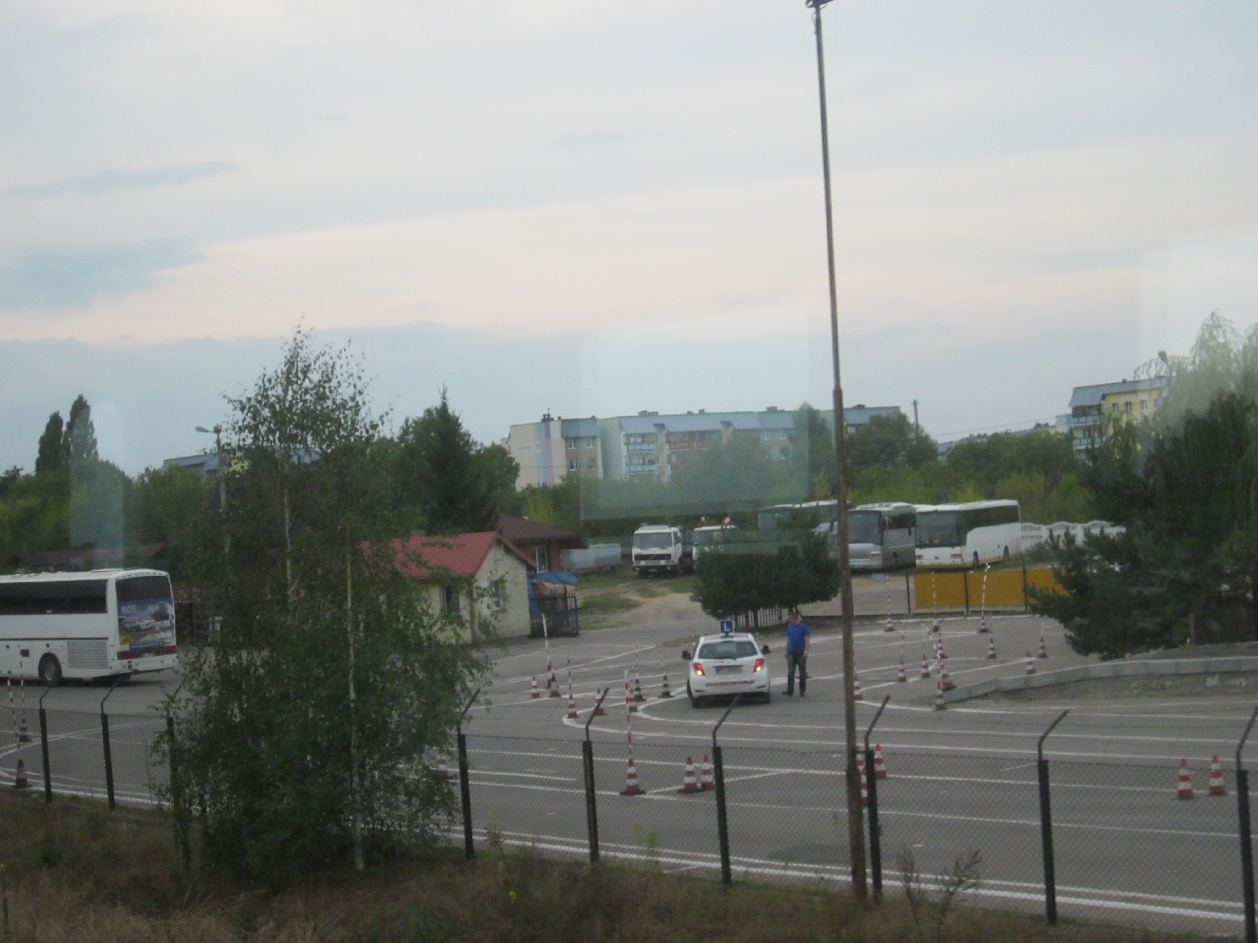 Akces - driving school in Białystok, at 62 Lawendowa Street.